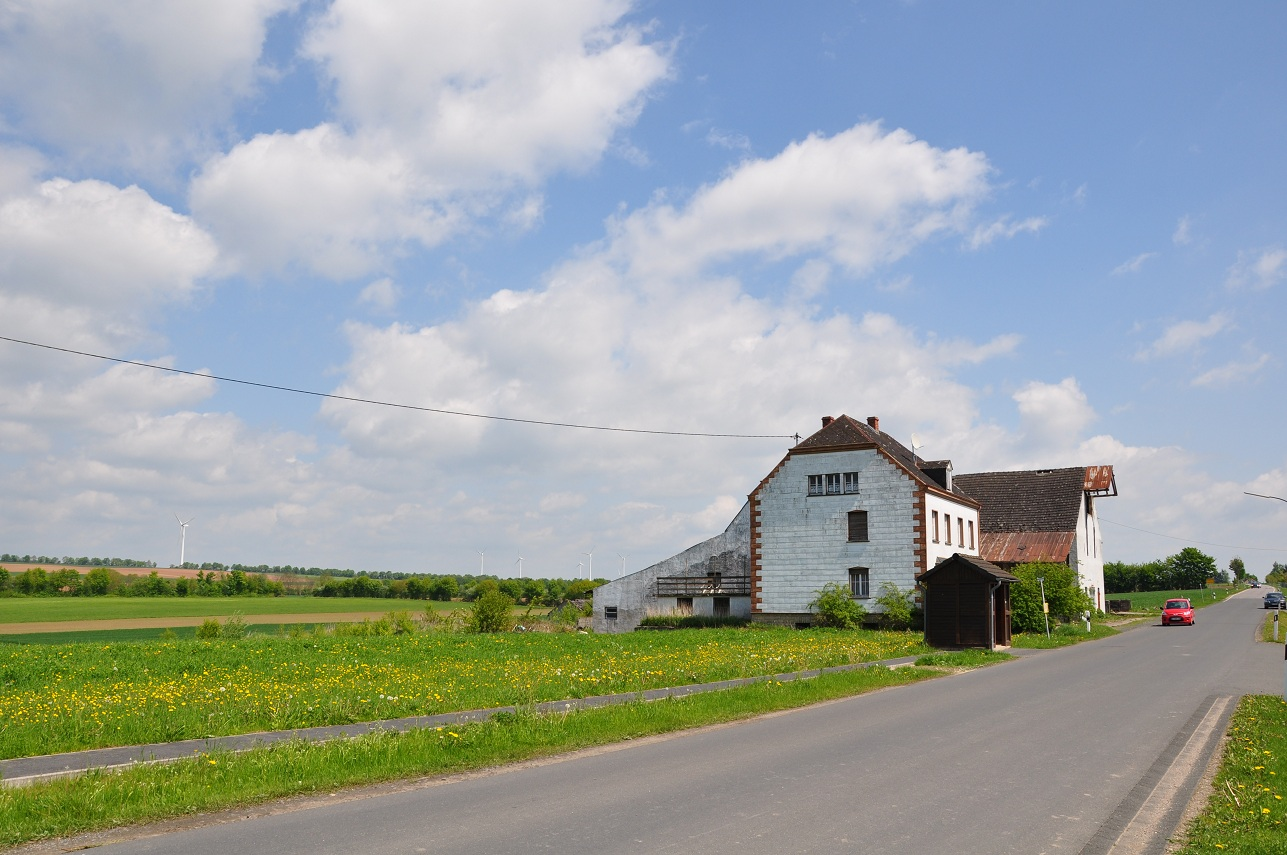 Hommerdinger Street, Hommerdingen, Eifel, Rhineland-Palatinate, Germany.